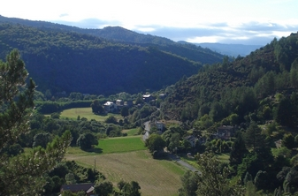 n Fr-48-moissac-Vf4.jpg view of thee Moissac's valley toward north from the old castle